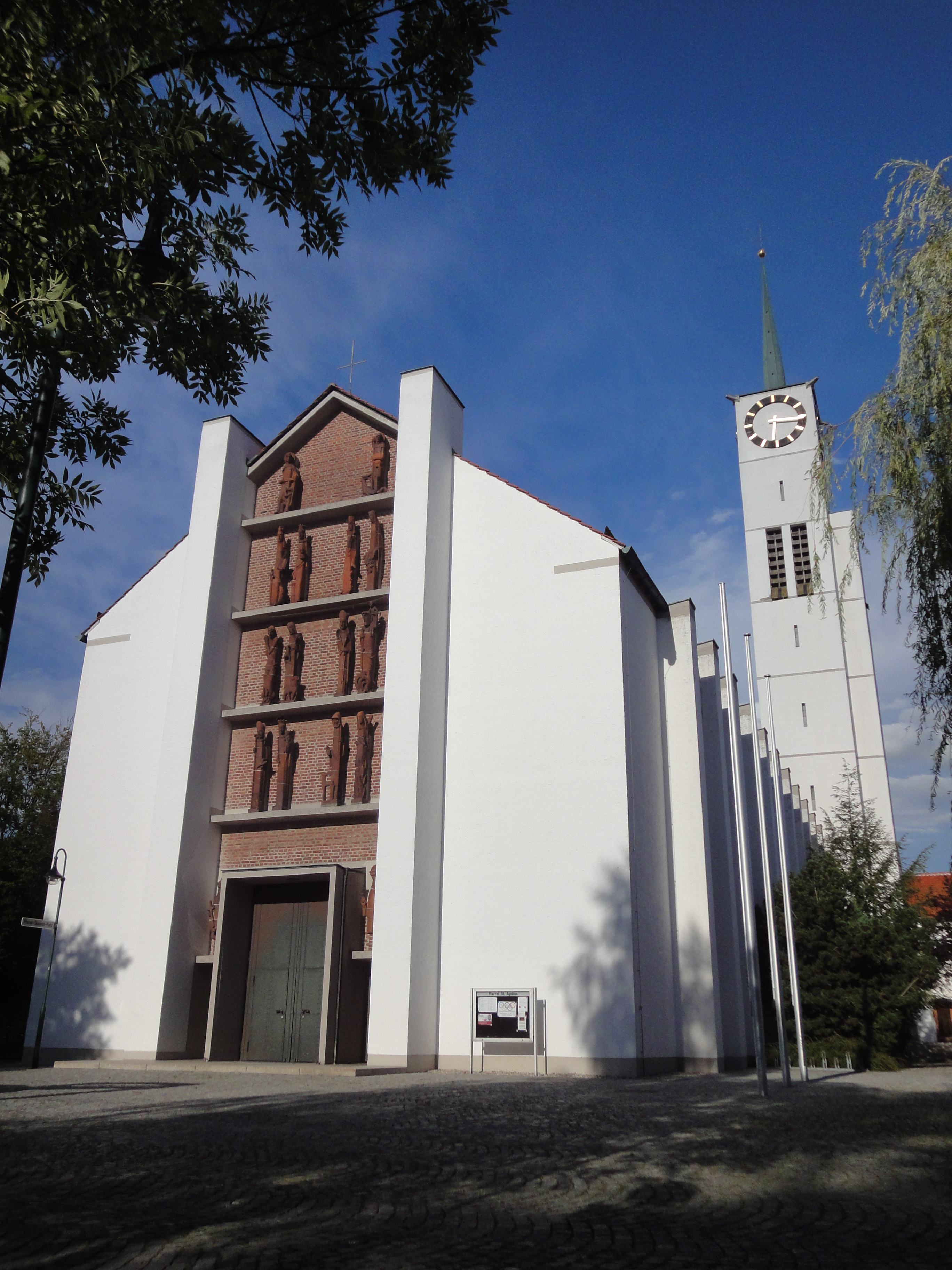 church in Neusäß